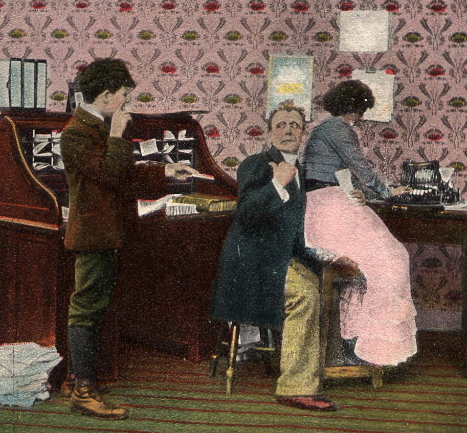 Early 20th century postcard shows office. Boss man gestures and says "Get out! Can't you see I'm busy." (per postcard caption) to an office boy while he has an arm around the waist of a typist.